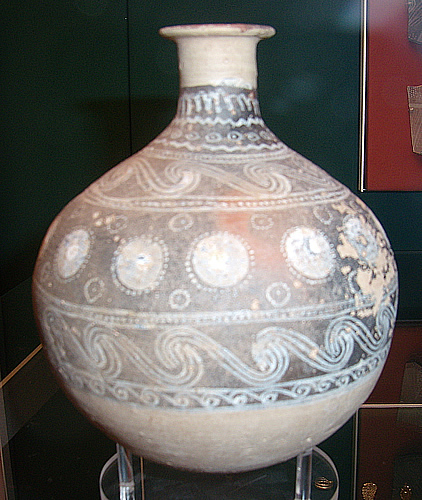 Nuzu-Ware, found at Alalakh